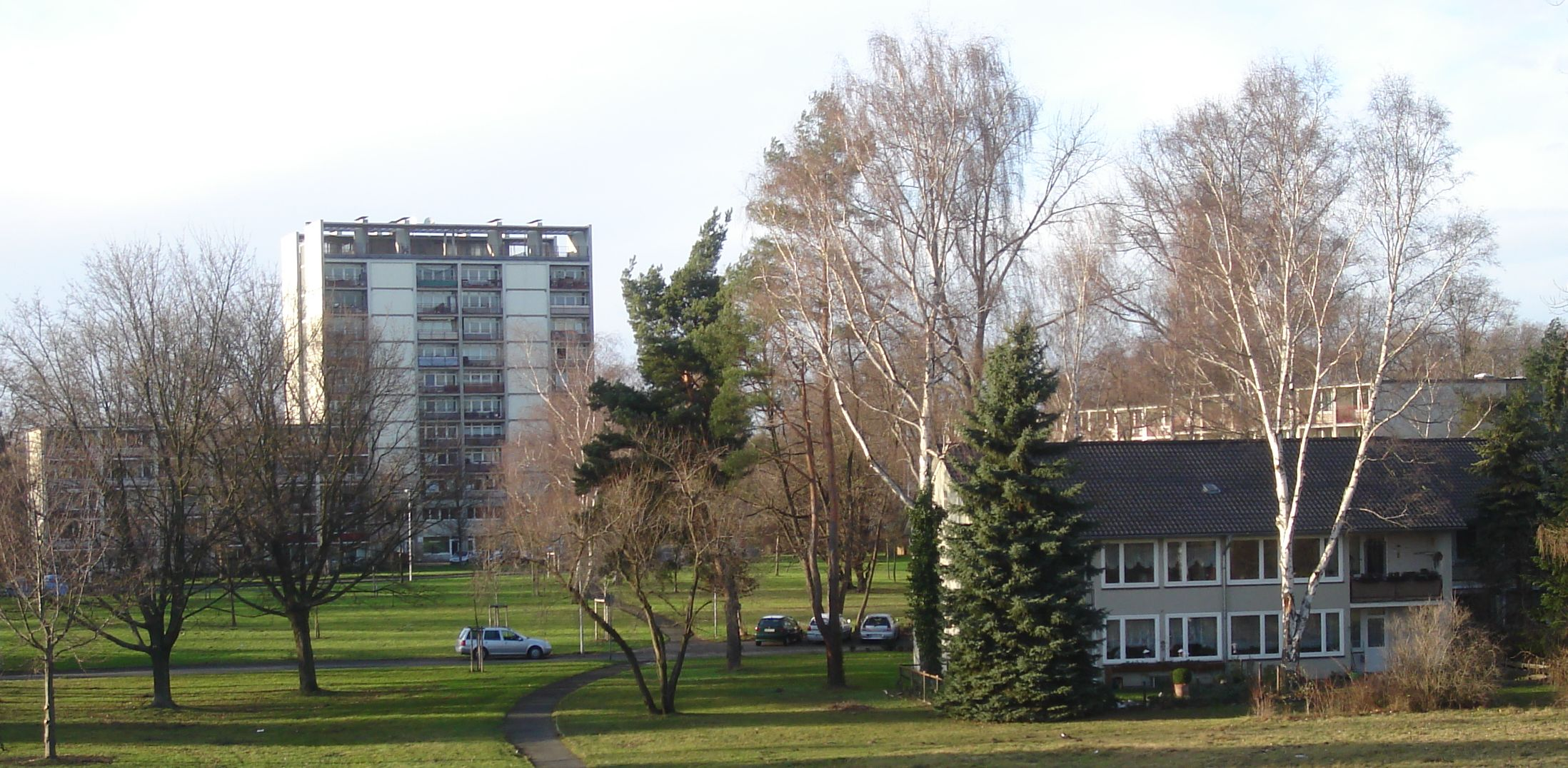 View of Bonn-Tannenbusch, Germany. Houses at Hohe Straße / Im Tannenbusch.